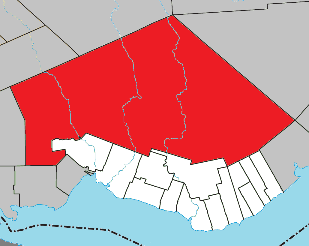 Location of Rivière-Bonaventure, Quebec within Bonaventure Regional County Municipality.